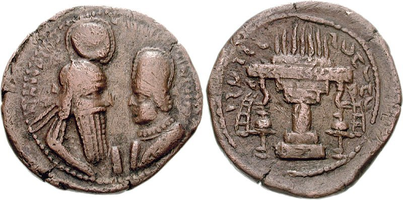 Coin of the Sasanian king Ardashir I and his son and heir Shapur I.